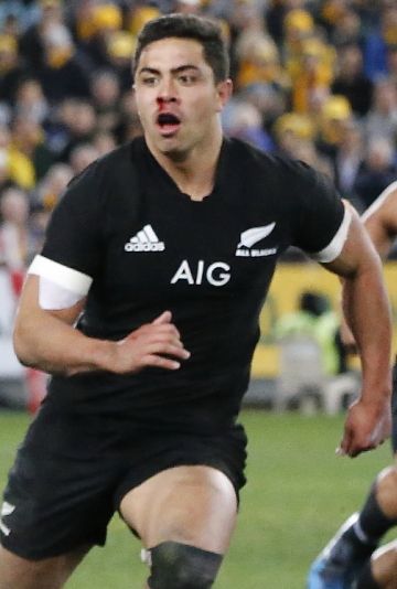 2017.08.19.21.47.20-Beauden Barrett 2017 Rugby Championship, Bledisloe 1, Australia vs New Zealand, 19th August, ANZ Stadium, Sydney